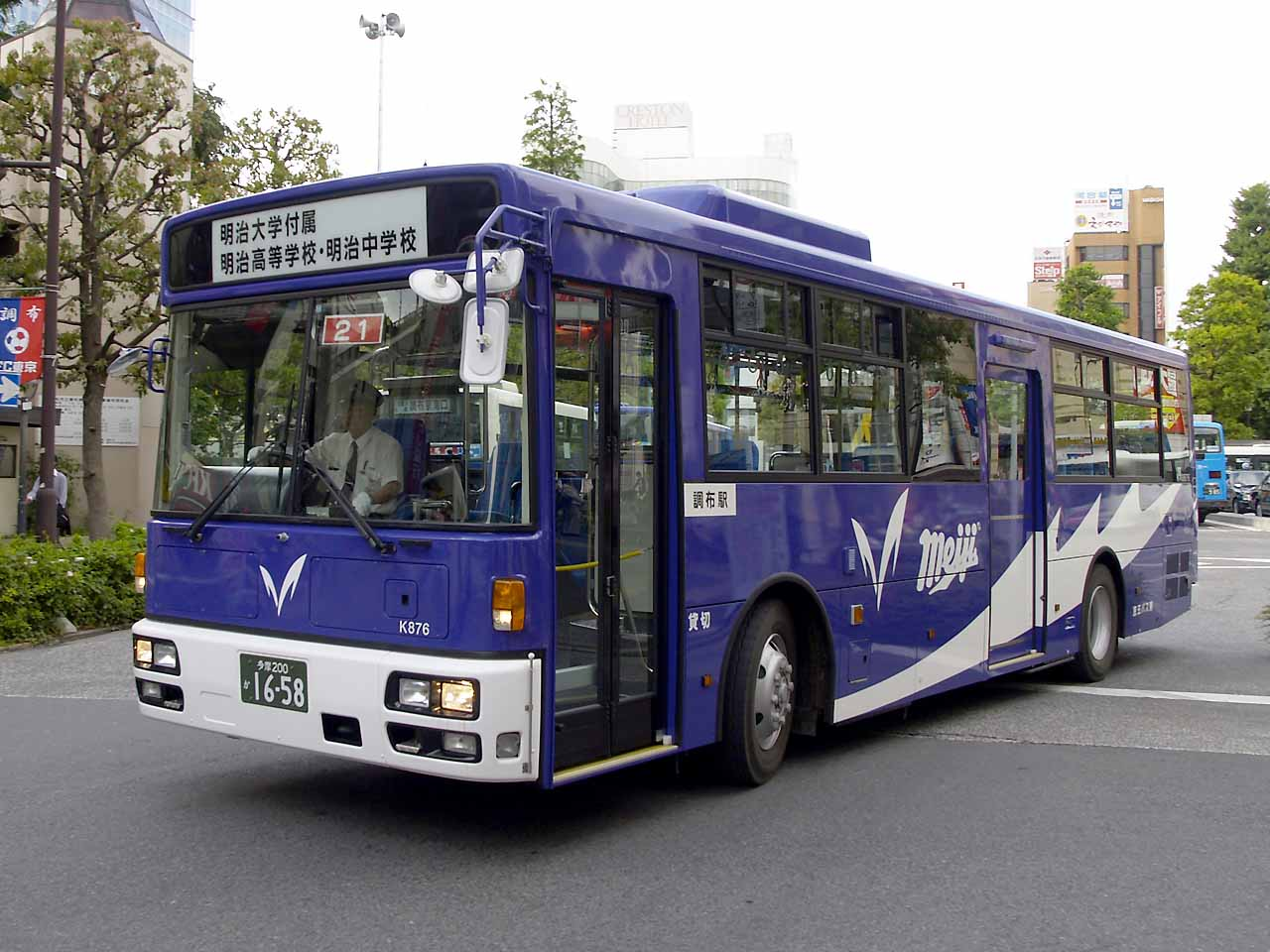 Fleet of Meiji University Meiji High School 's school bus, operated by Keio Bus Higashi & Keio Bus Chuo. Model: Nissan Diesel Space Runner PKG-RA274 License plate: TKT200 KA1658 Place: Keio Chofu Station: Chofu City, Tokyo Japan